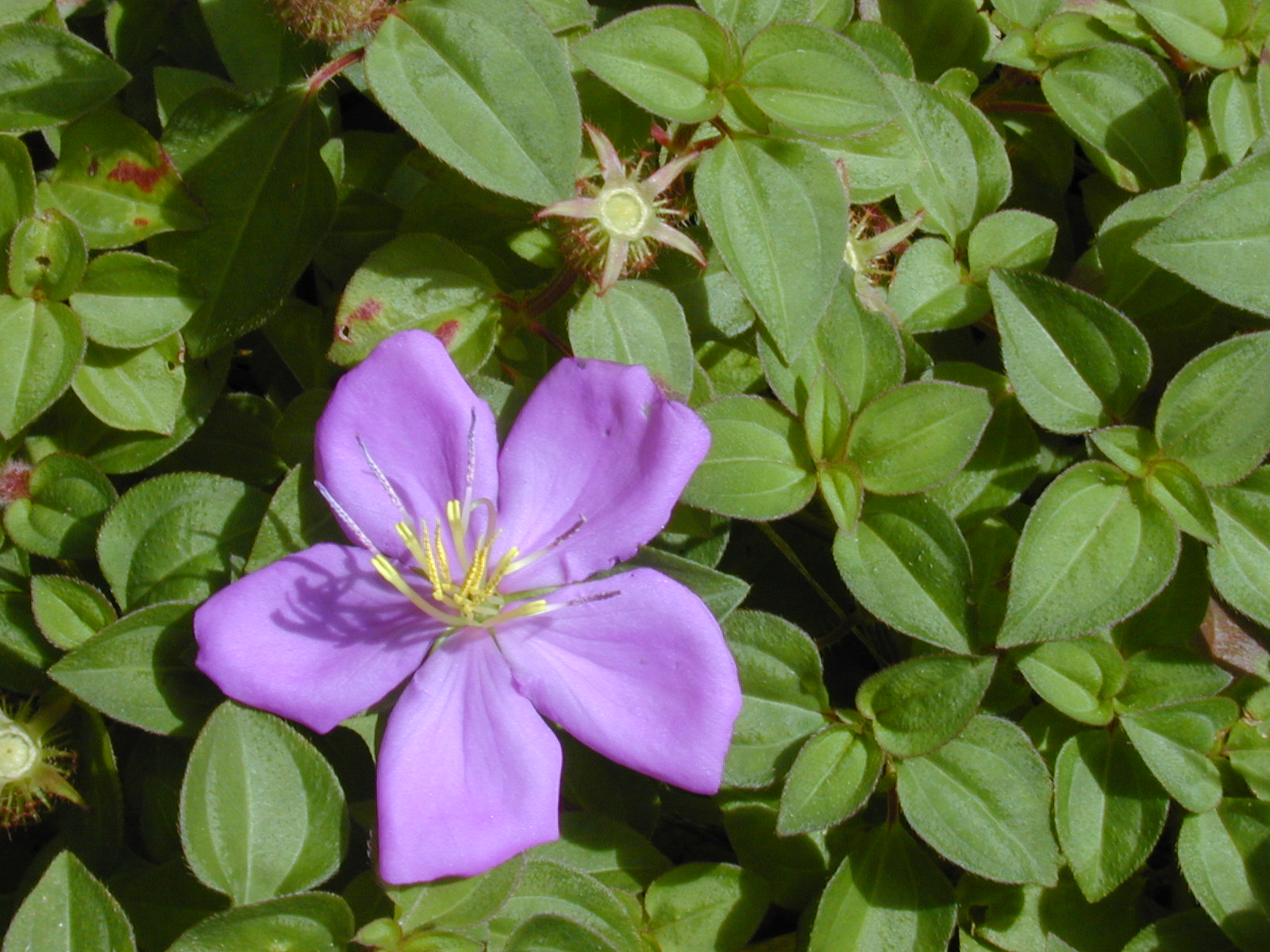 Dissotis rotundifolia (flower leaves). Location: Maui, Nahiku